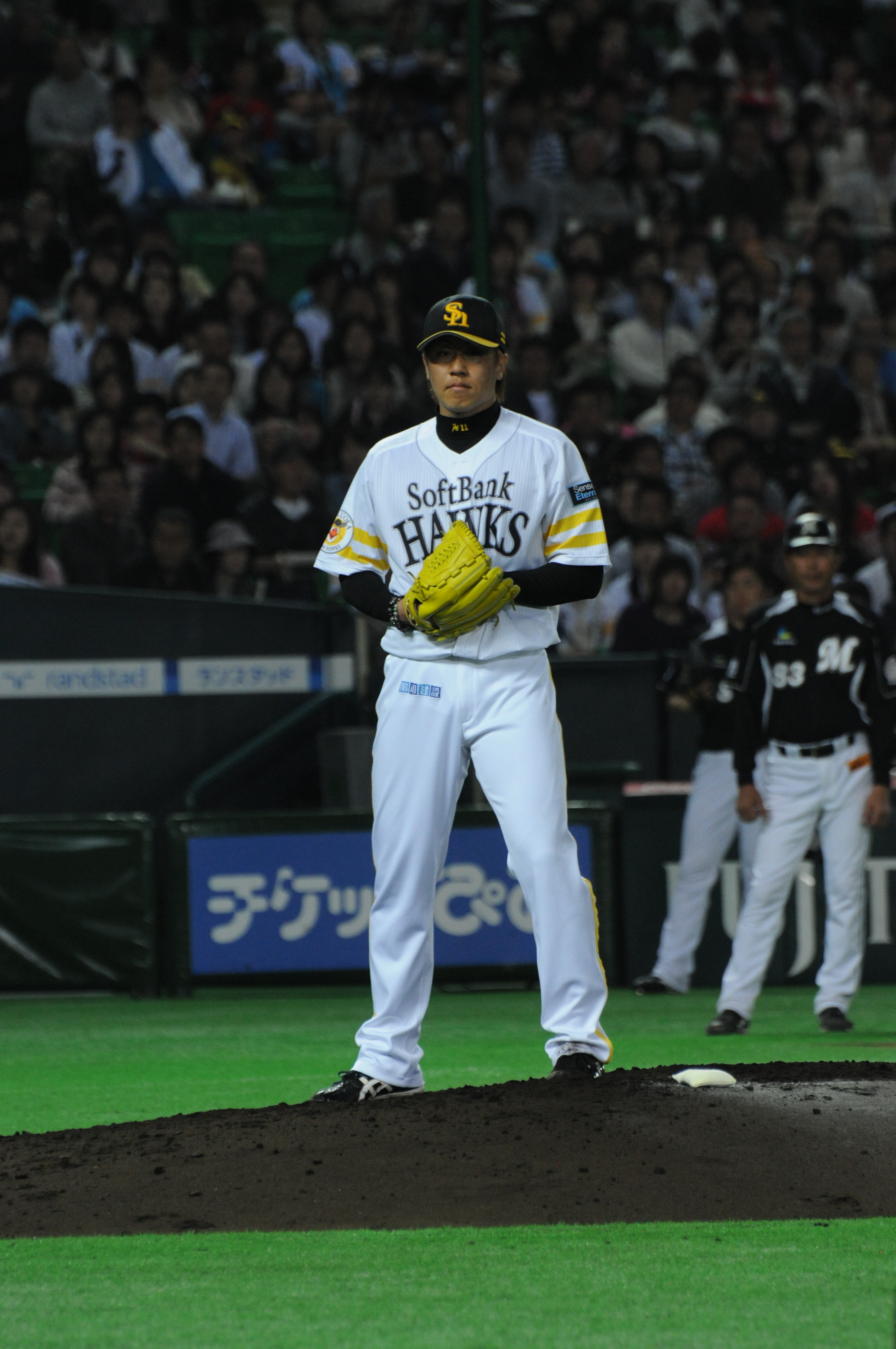 Kazuyuki Hoashi, pitcher of the Fukuoka SoftBank Hawks, at Fukuoka Dome.